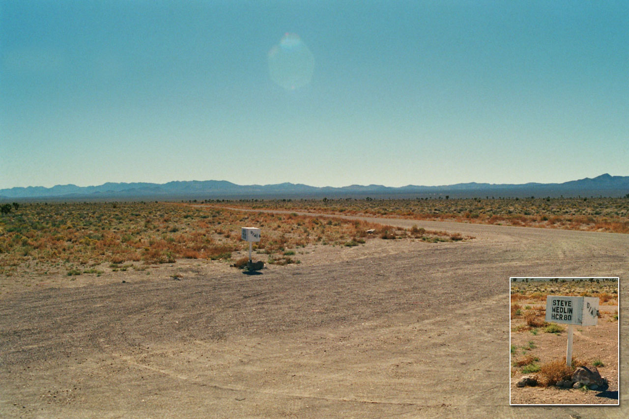 The end of "Black Mailbox Road" (an Area 51 access road also known as "Groom Lake Road"), as seen from State Route 375 in the Tikaboo Valley of southern Nevada. The former black mailbox is long gone and was replaced by a white one belonging to Steve Medlin, who runs a farm down the road. The Groom Lake facility is 20 miles from this point, beyond the mountain range seen to the left.